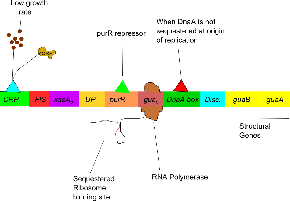 This image briefly describes some mechanisms by which the gua operon is regulated. It is a highly simplified representation of the operon. Figure was adapted from the paper by Drabble, William and Ian Davies (1992) in Microbiology 142: 2429-2437.